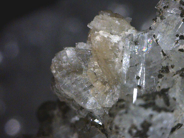 Fairfieldite (Field of view 5 mm) Locality: Cigana claim (Cigana mine; Jocão claim), Conselheiro Pena, Doce valley, Minas Gerais, Brazil Original description: Aggregate crystals Fairfieldite on matrix; Photo and collection Fernando Brederodes.